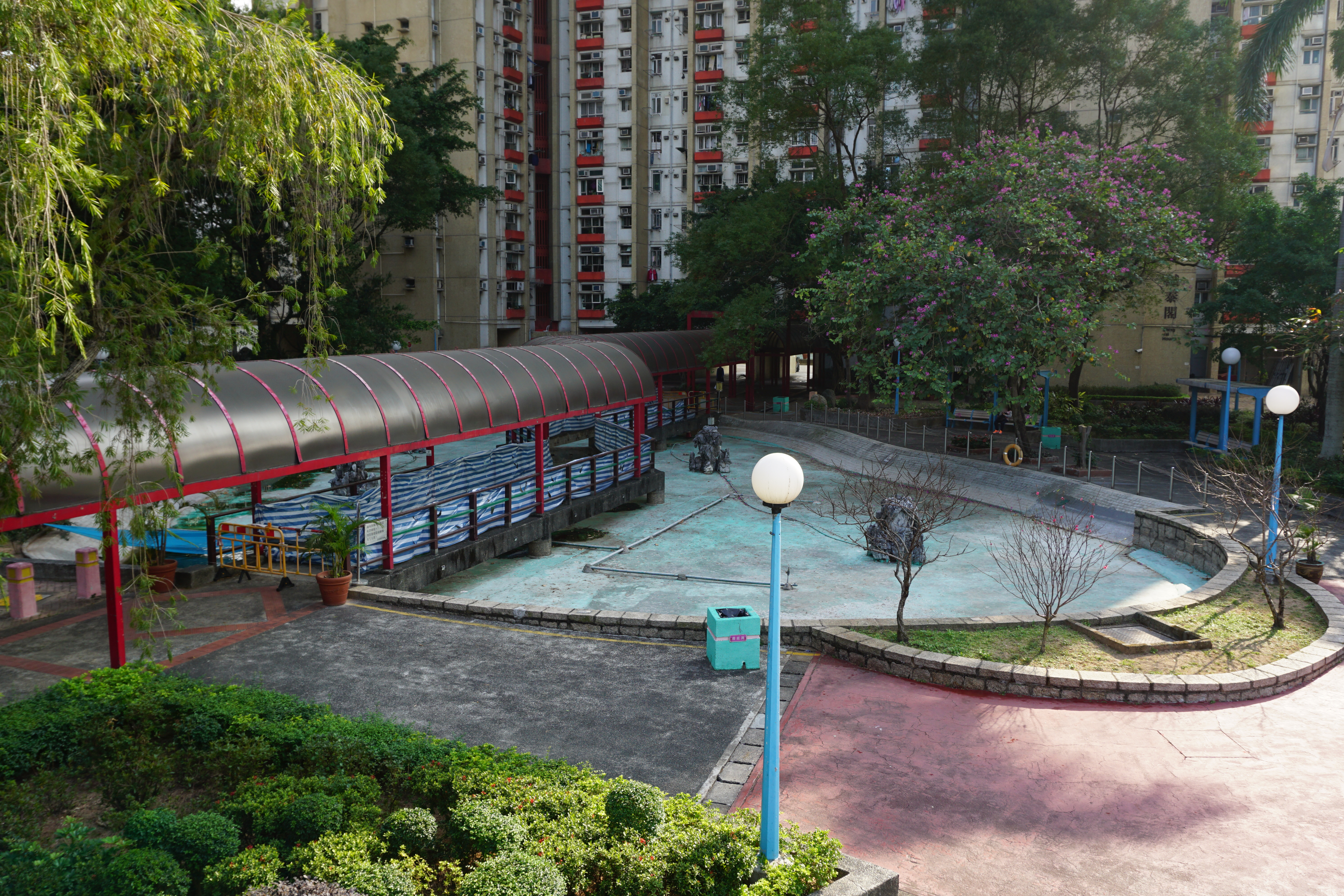 Ching Tai Court in Tsing Yi, Hong Kong.